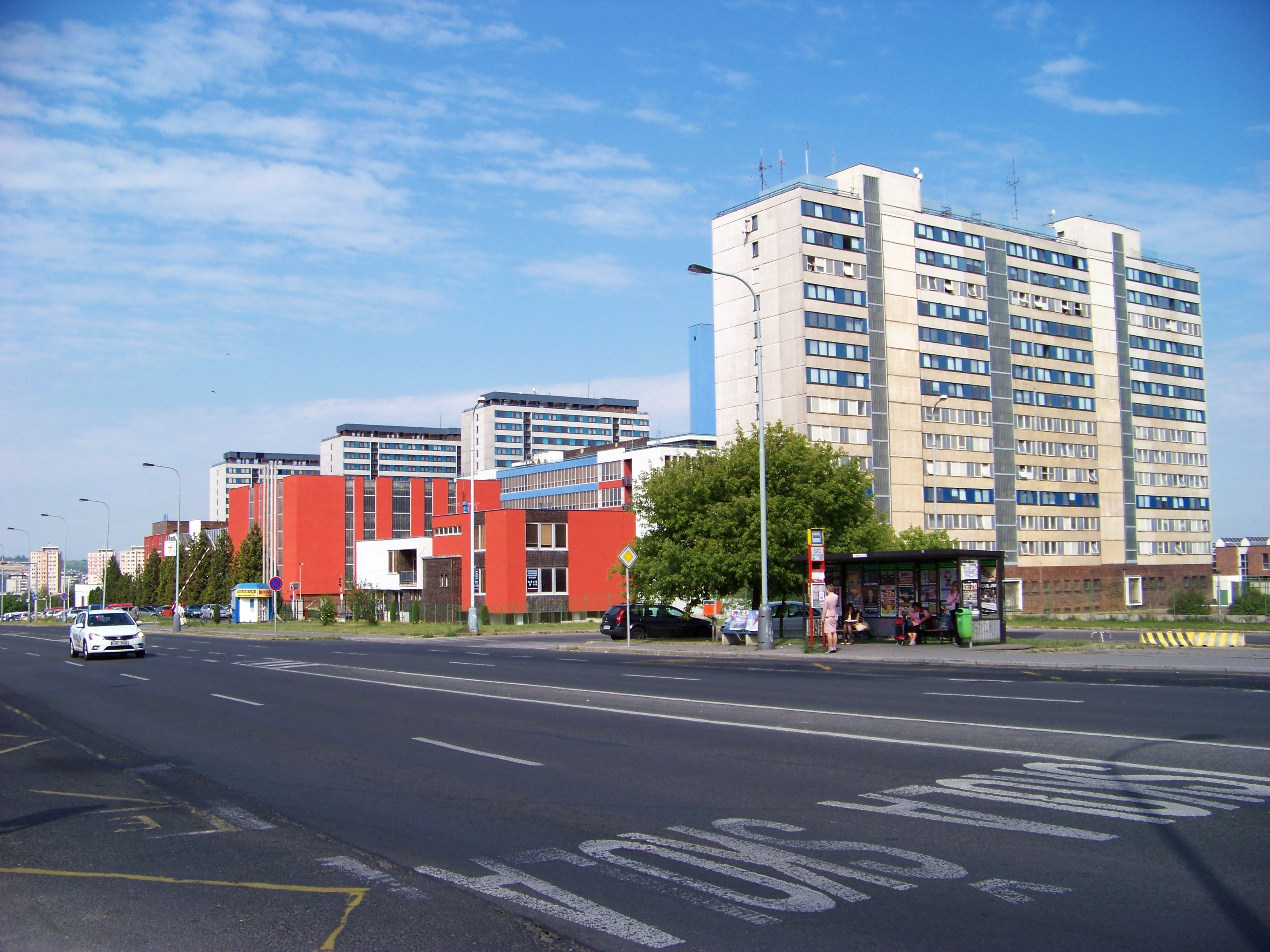 Prague-Kamýk, the Czech Republic. Lhotecká street, Police Academy of the Czech Republic.